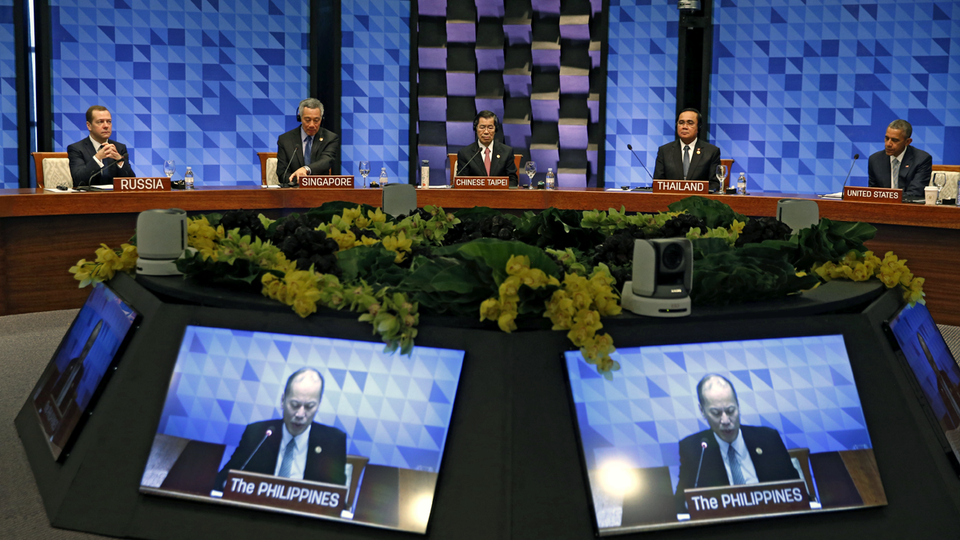 APEC Leaders’ Meeting. From left to right: Dmitry Medvedev (Russia), Lee Hsien Loong (Singapore), Vincent Siew (Chinese Taipei), Prayuth Chan-ocha (Thailand), Barack Obama (USA). In-screen: Benigno Aquino III (Philippines).